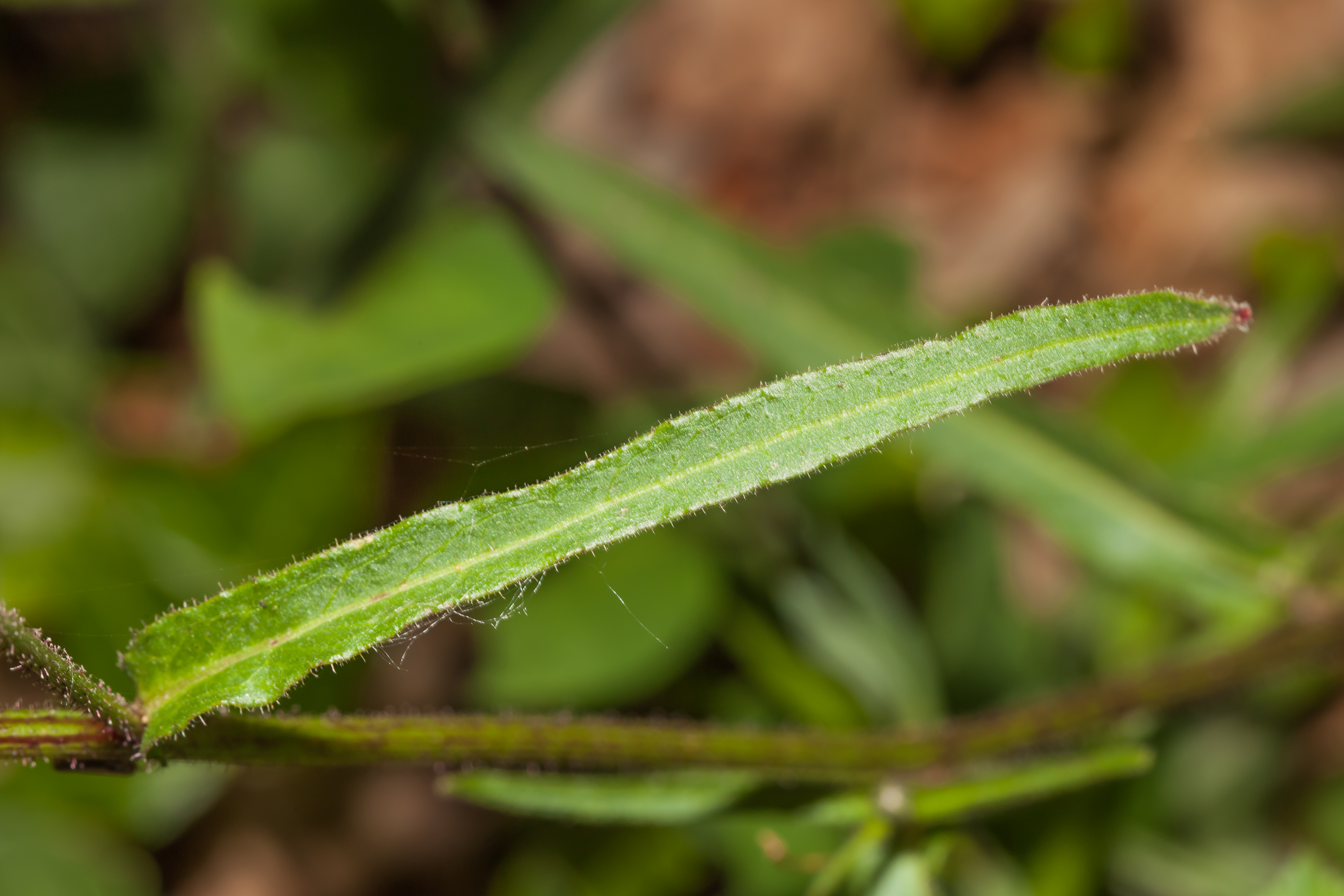 Picris hieracioides and Insect. Valverde, Vilarromarís, Oroso, Galicia, Spain